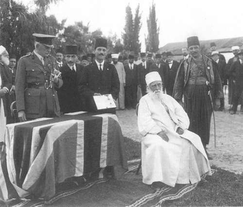 The King of Britain knighted 'Abdu'l-Bahá for promoting peace in the Middle East (1920)